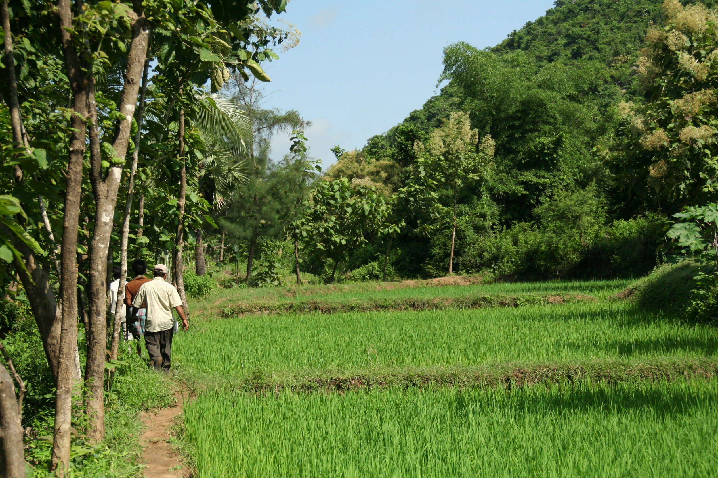 Polyculture practices in Jaganath Puram, Andra Pradesh, India.